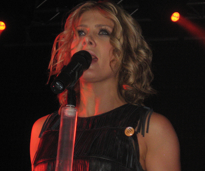 Natalie Bassingthwaighte performing with Rogue Traders